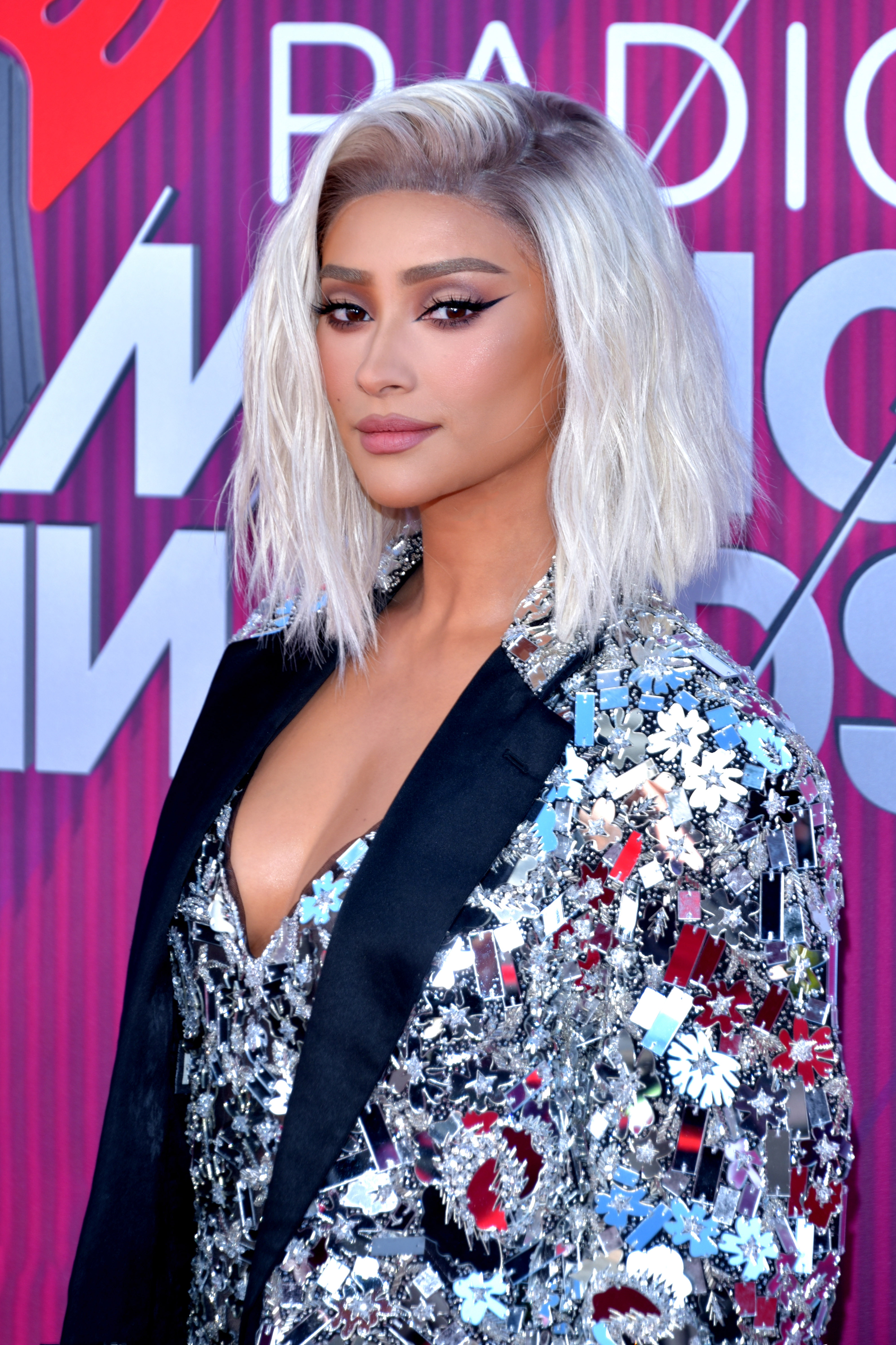 Shay Mitchell arrives for the 2019 iHeartRadio Music Awards in Los Angeles California - Photo by Glenn Francis of